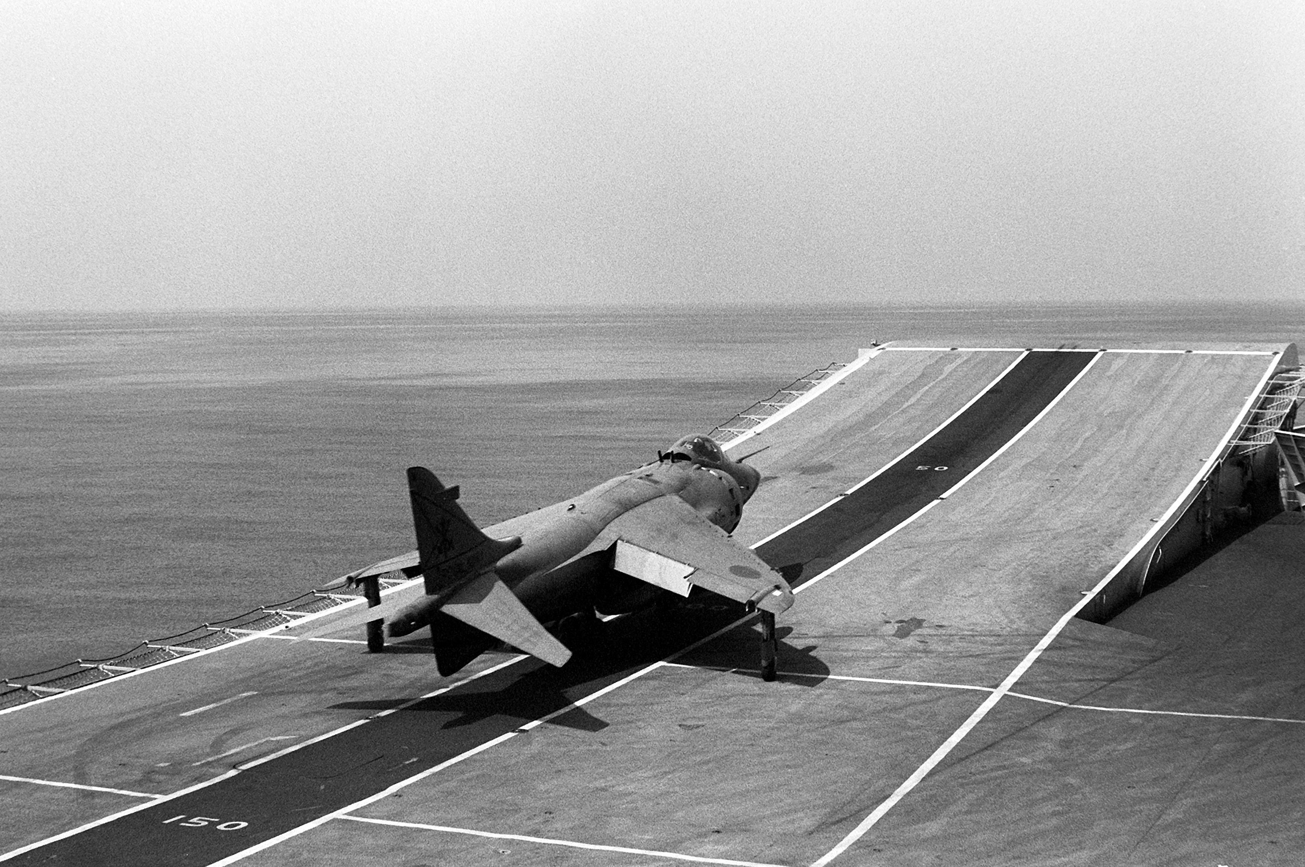 A Royal Navy BAe Sea Harrier FRS.1 aircraft from 800 Naval Air Squadron makes its takeoff roll along the flight deck of the British light aircraft carrier HMS Invincible (R05) during the NATO Southern Region exercise "Dragon Hammer '90".